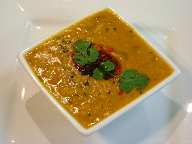 South Of India